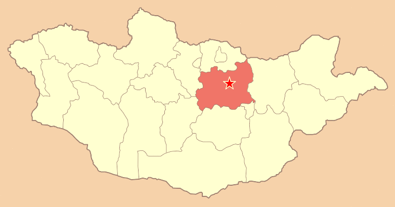 Map of Mongolia with Tuv Aimag highlighted.